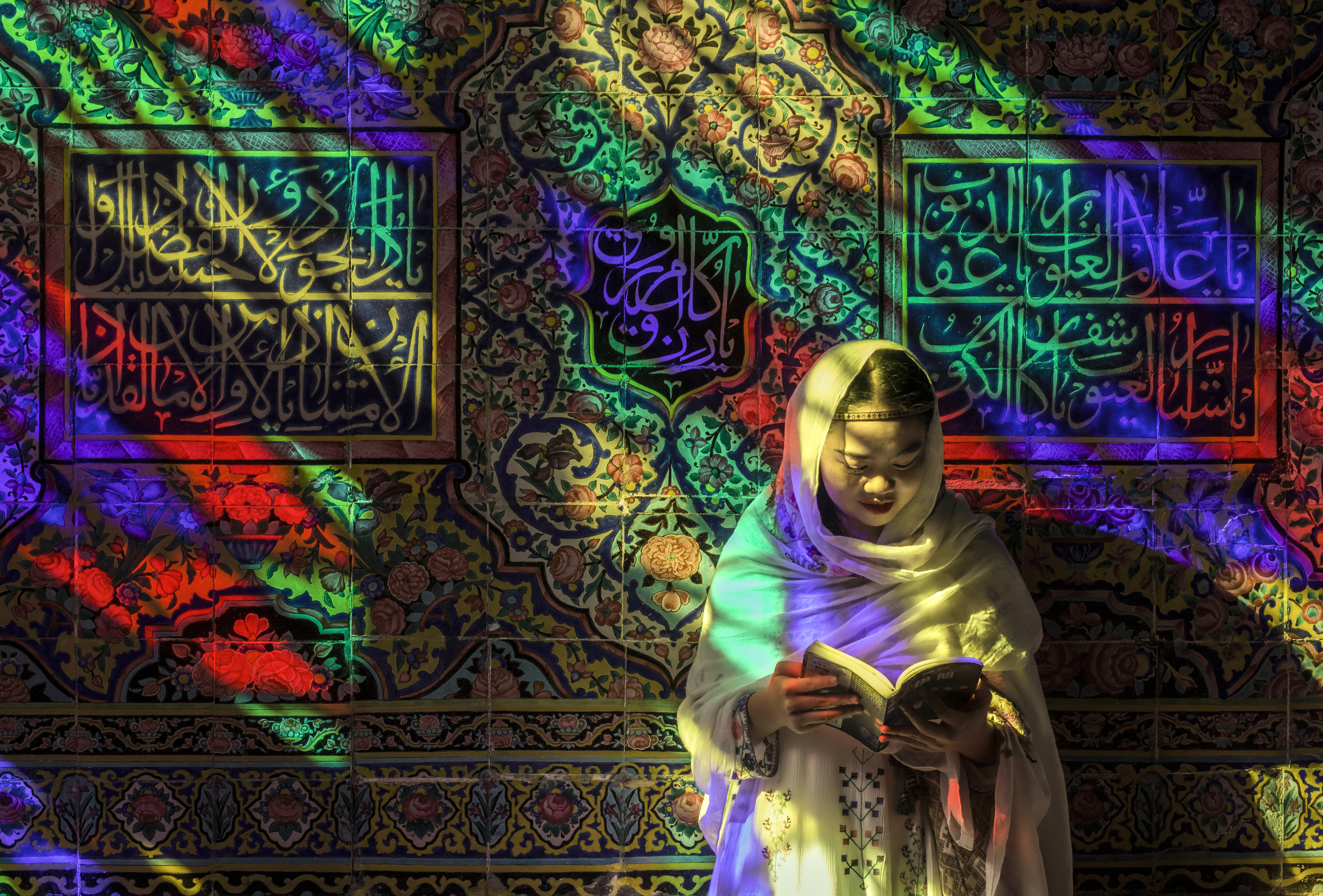 Woman reading a book in the light from a stained glass window in the Winter prayer hall of Nasir-ol-molk Mosque (Rangha Mosque) Nasir Al-Molk Mosque or Pink Mosque is one of the old mosques of Shiraz. The mosque is located in the Gawd-i Arabān quarter, formerly known as Ishaq Beyg neighborhood, south of Lotfali Khan Khan Zand Street, near Shahcheragh, on Nasir al-Molk Alley. Construction began in 1876 by the order of the late Hassan Ali Nasir al-Molk, one of the lords and aristocrats of Shiraz, the son of Mirza Ali Akbar Qavam-ol-Molk, the ruler of Fars and was completed in 1888. The designers were Mohammad Hasan-e-Memār, an Iranian architect who had also built the noted Eram Garden before the Nasir al-Molk Mosque, Mohammad Hosseini Shirazi, and Mohammad Rezā Kāshi-Sāz-e-Širāzi. This work was registered as one of the national works of Iran on June 20, 1979 with the registration number 396.